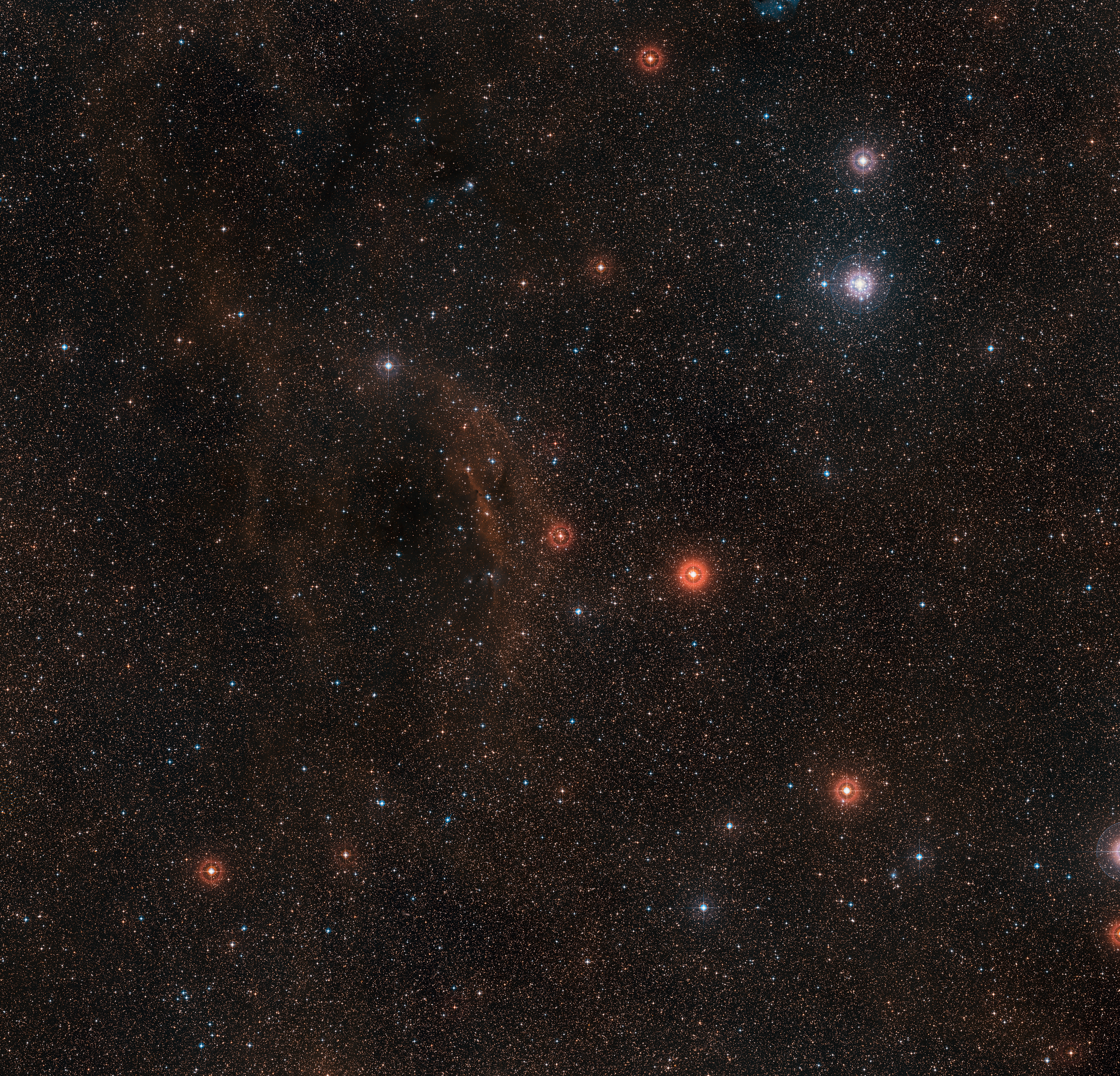 This wide-field view shows the sky around the very brilliant red hypergiant star VY Canis Majoris, one of the largest stars known in the Milky Way. The star itself appears at the centre of the picture, which also includes clouds of glowing red hydrogen gas, dust clouds and the bright star cluster around the bright star Tau Canis Majoris towards the upper right. This picture was created from images forming part of the Digitized Sky Survey 2.